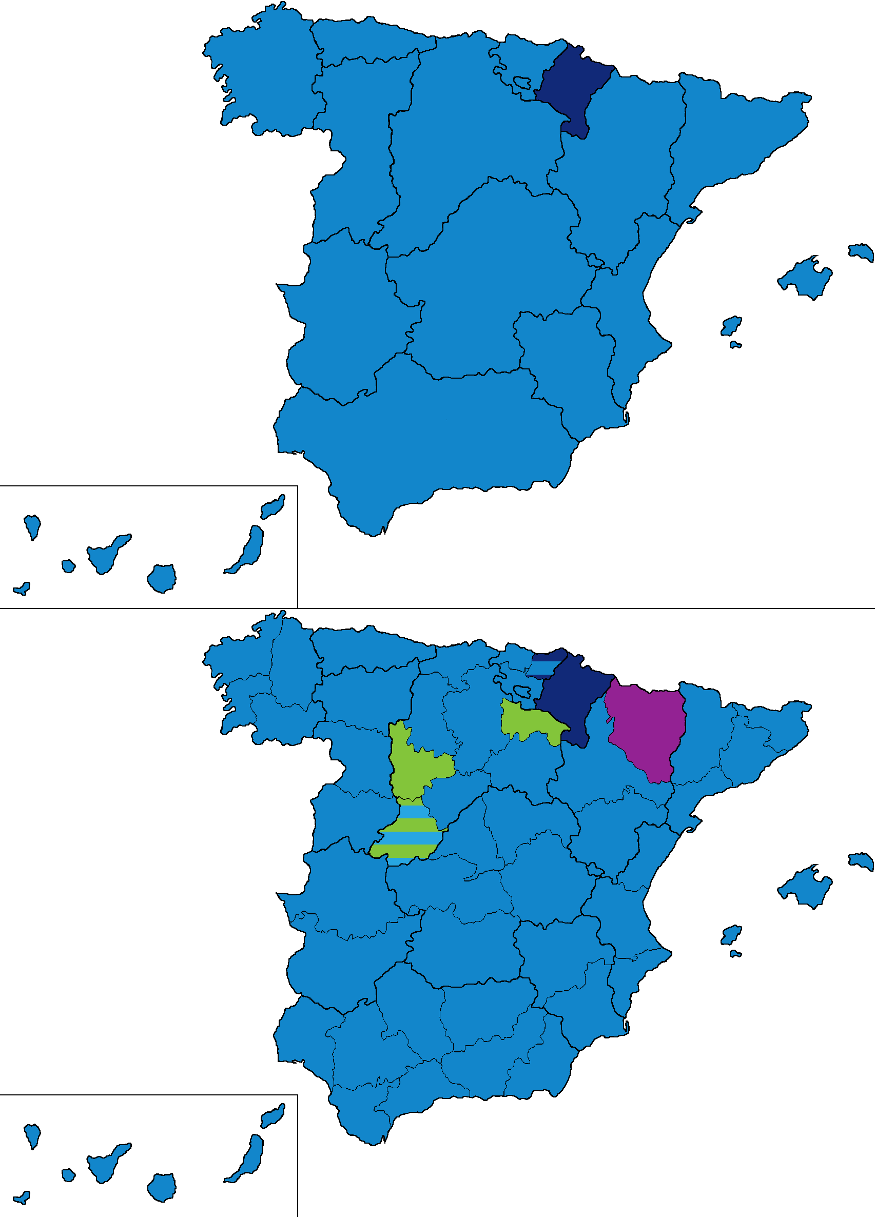 Most voted party in the 1896 Spanish Congress of Deputies election by regions and provinces.